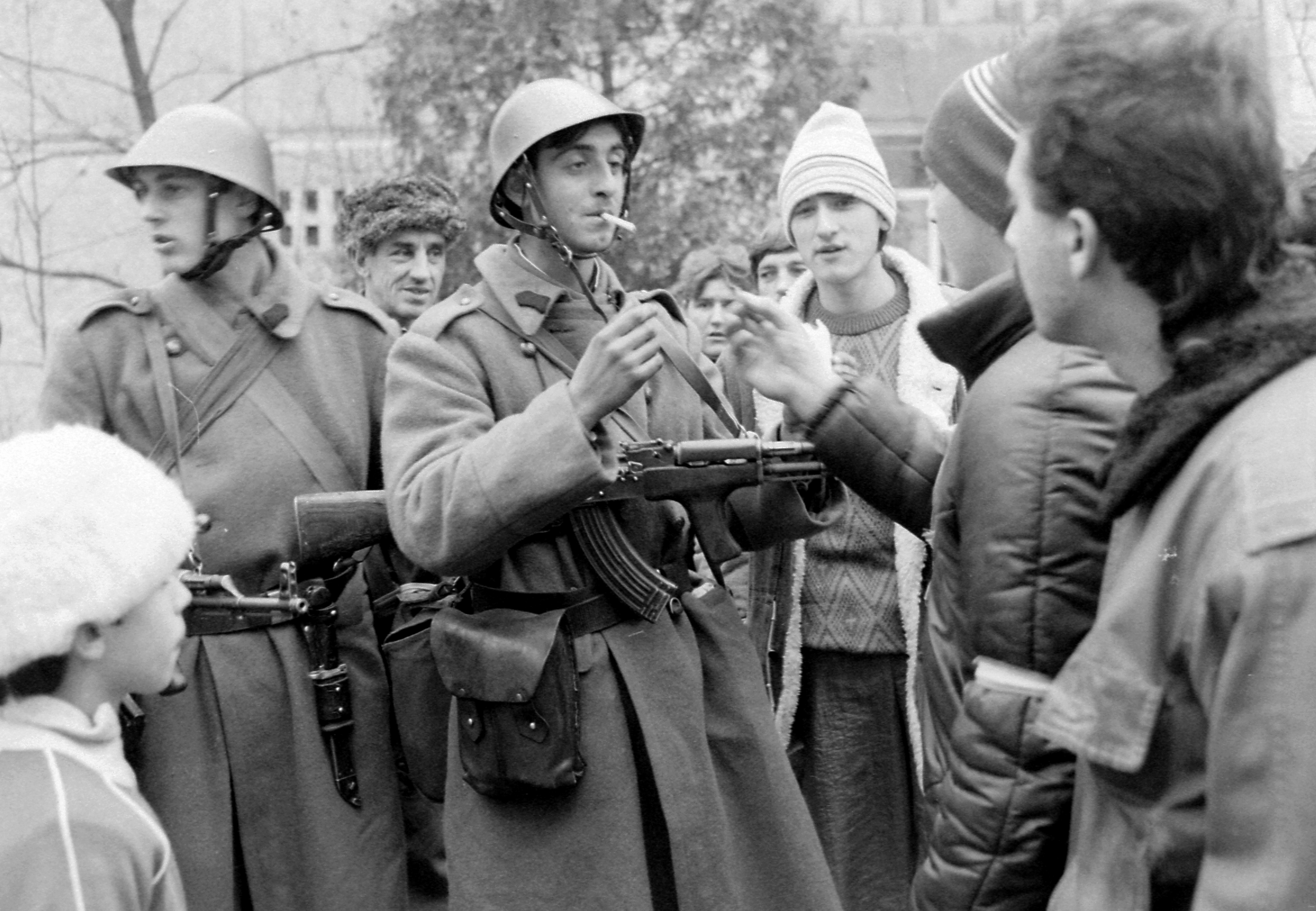 Location: Romania, Transylvania, Timisoara Tags: soldier, smoking, weapon, Kalashnikov, uniform, men, boy